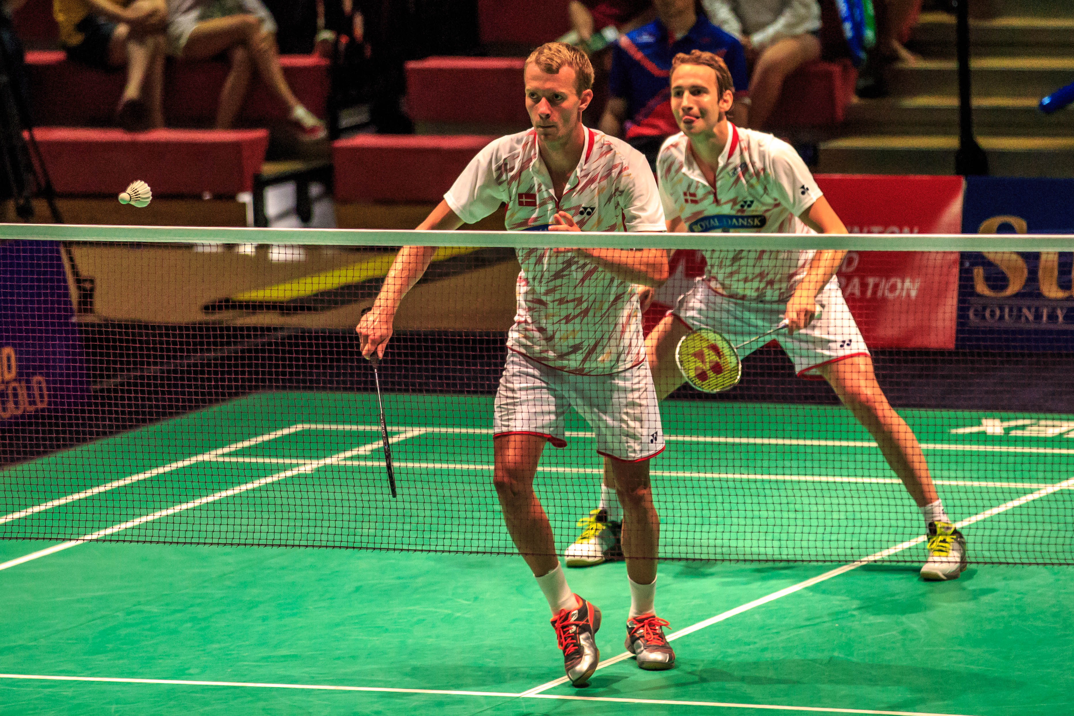 Mathias Boe and Carsten Mogensen at the 2014 US Open Grand Prix Gold final